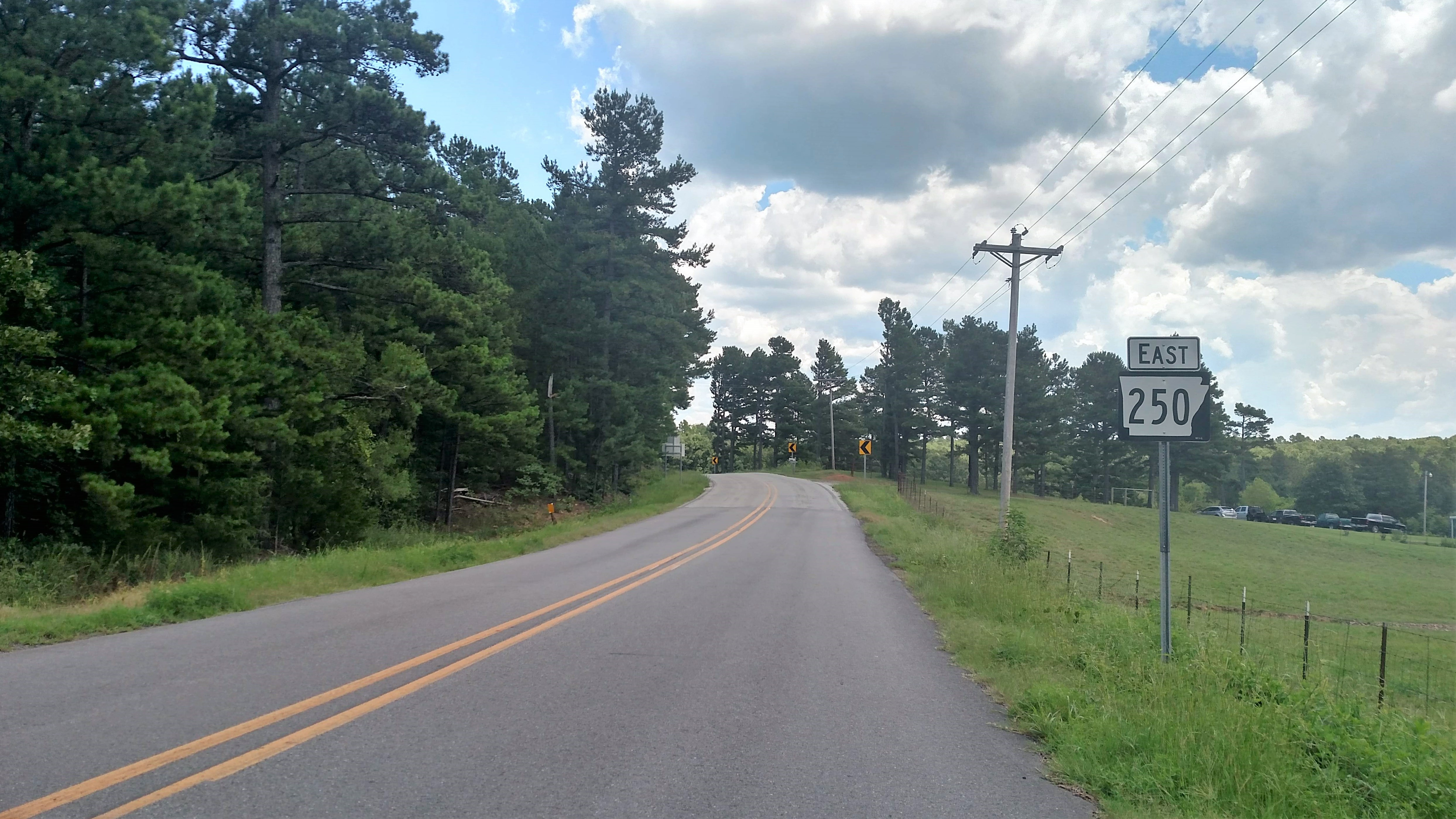 First AR 250 reassurance marker east of the US 71B intersection in Waldron, AR